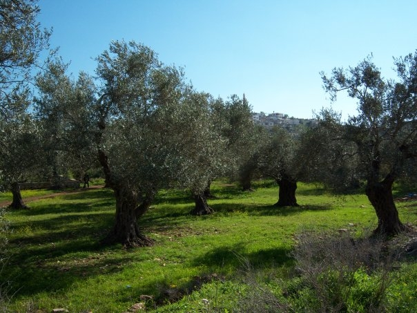 Olive Trees in Misilyah